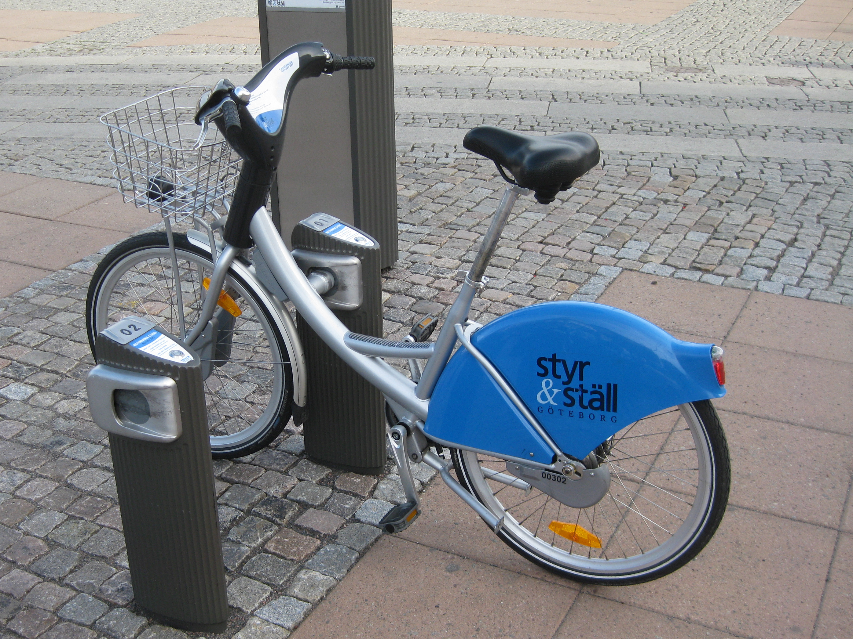 A bike in the Styr & Ställ bike rental system in Gothenburg, Sweden.